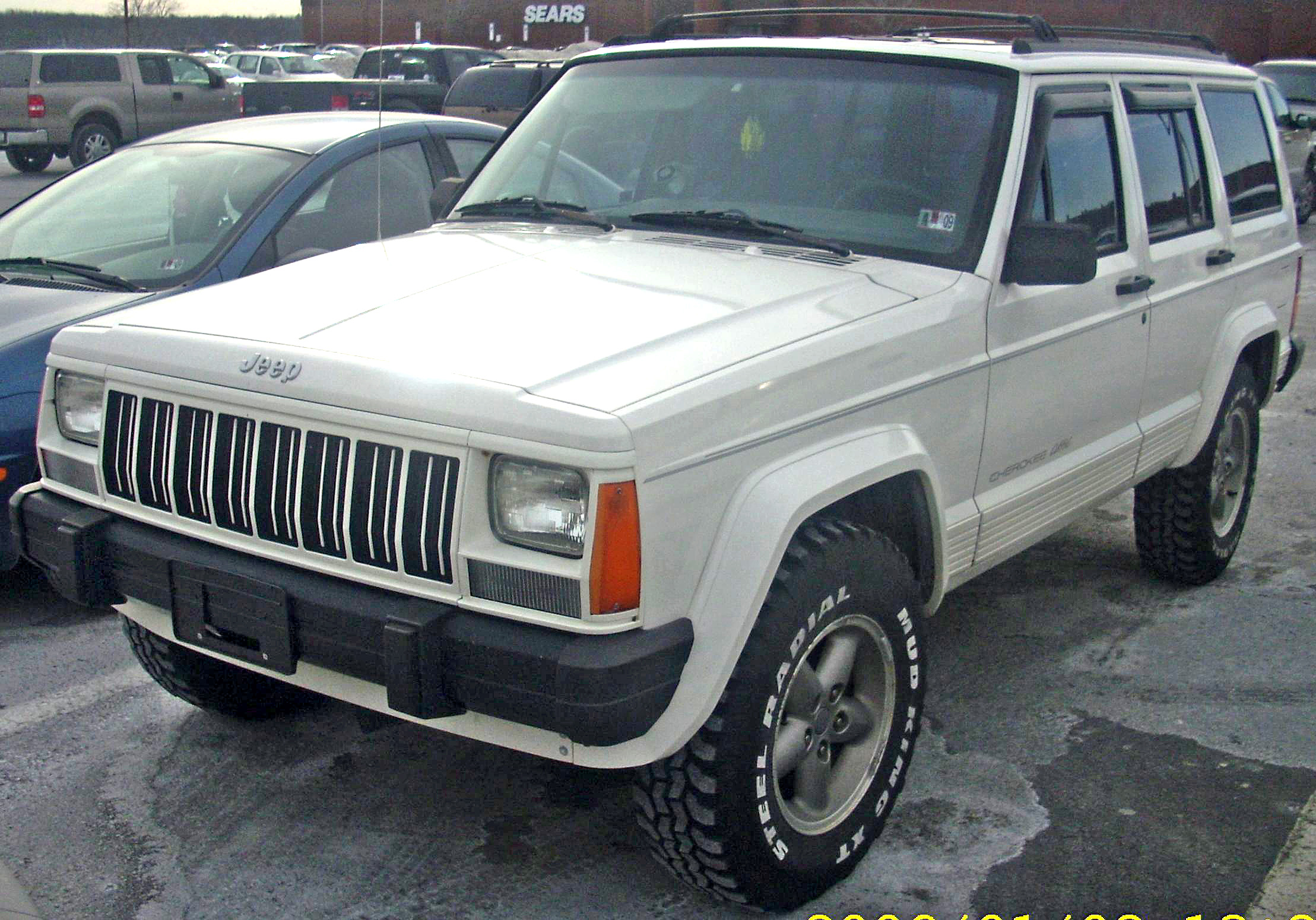 Jeep Cherokee photographed in Schuylkill Township, Schuylkill County, Pennsylvania, USA.